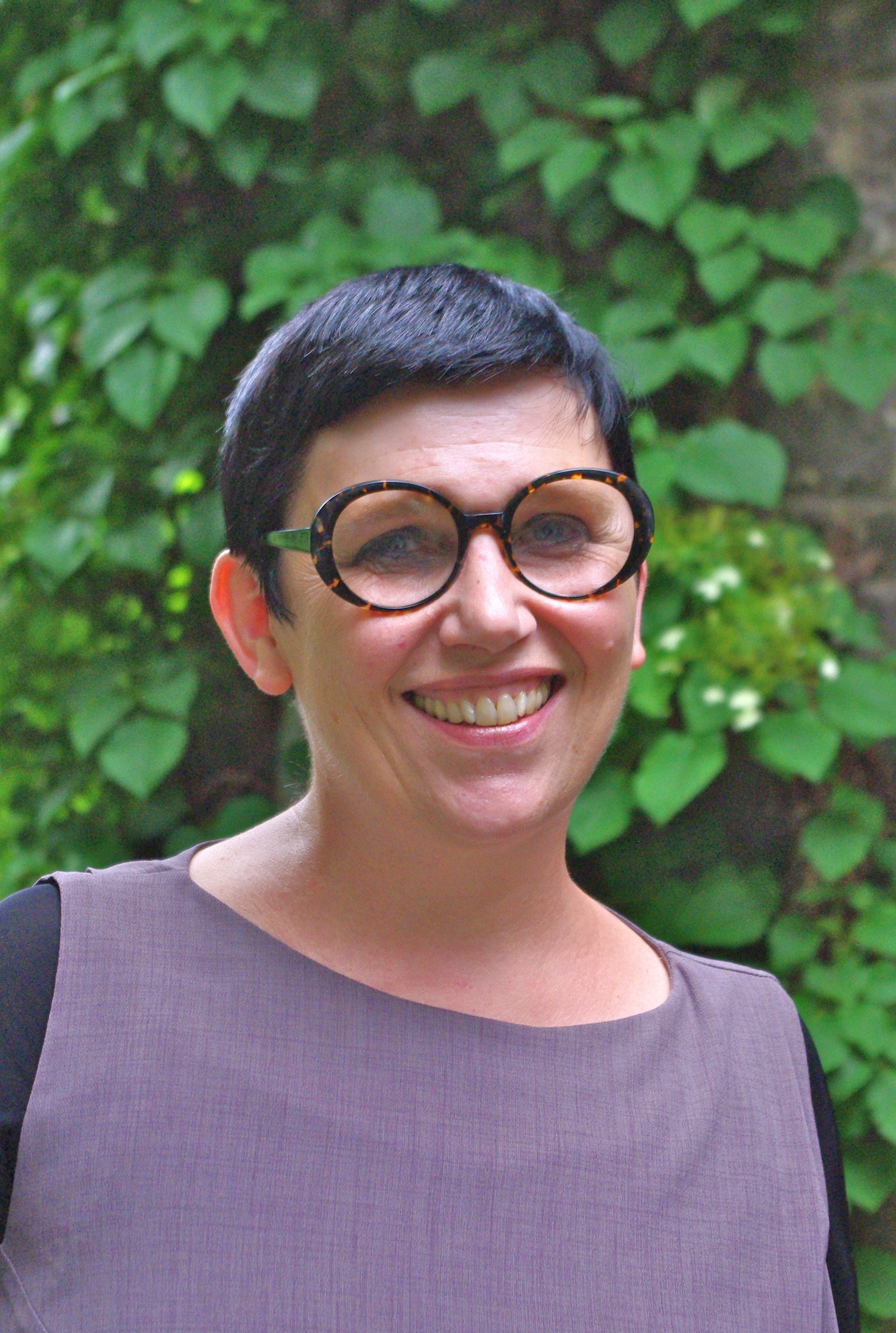 Blandine Rannou, after her recital in Sint-Lambrechts-Woluwe on June 11, 2017